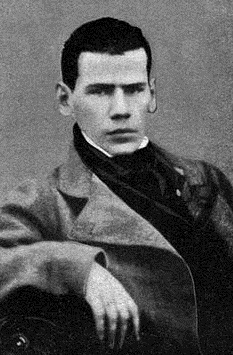 Leo Tolstoy 1848